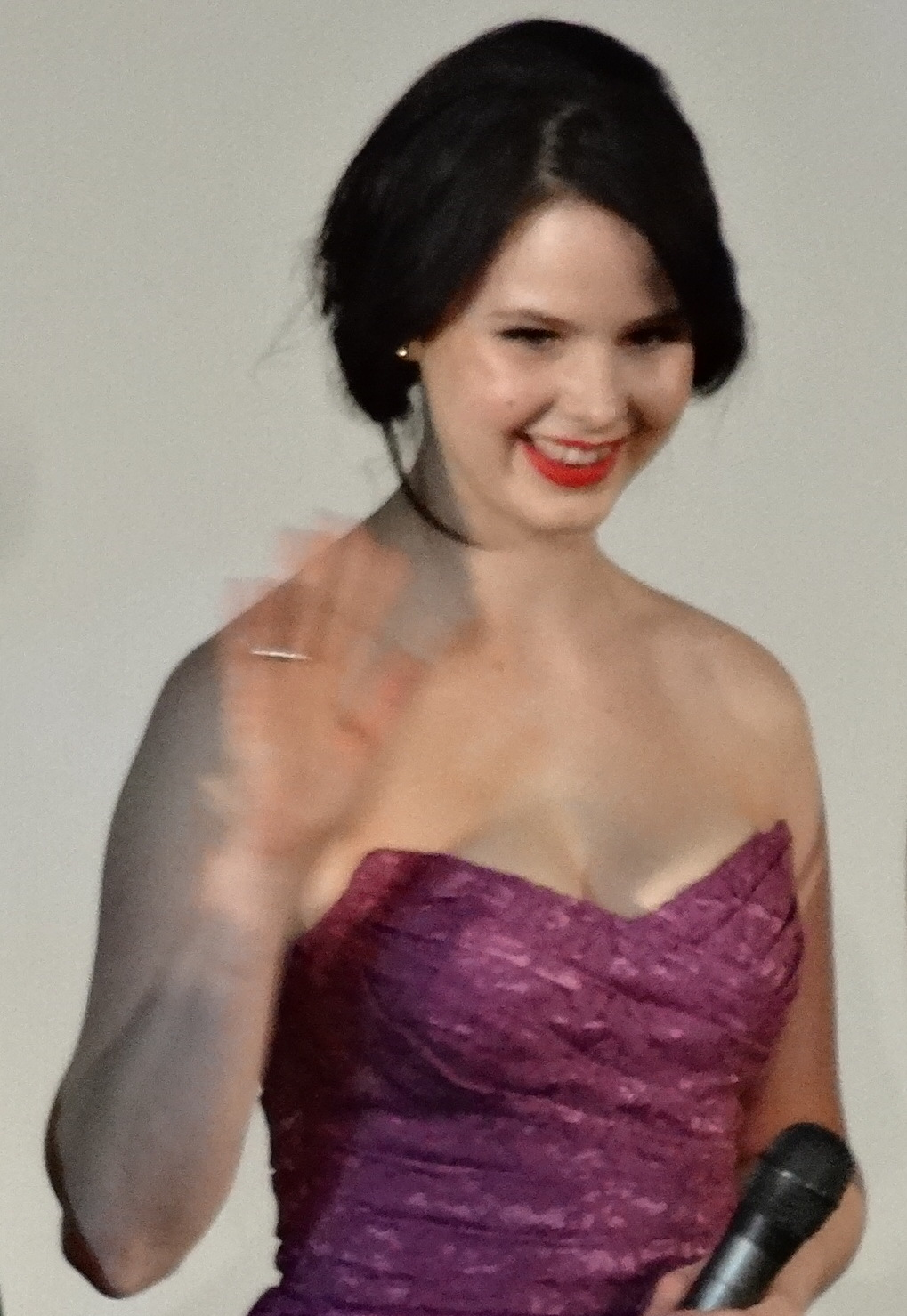 Spring Breakers Cast: Rachel Korine at the AVP Paris Le Grand Rex (February 2013).